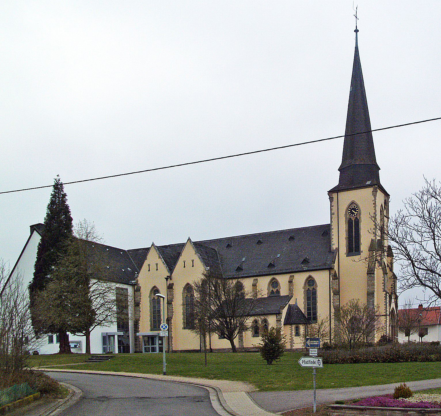 church of Hasborn Dautweiler